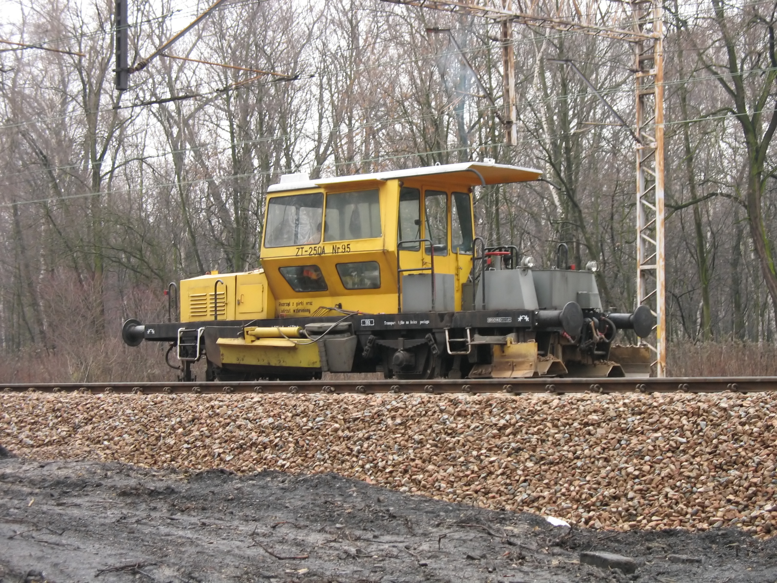 Railway works vehicles in Gliwice in Poland.